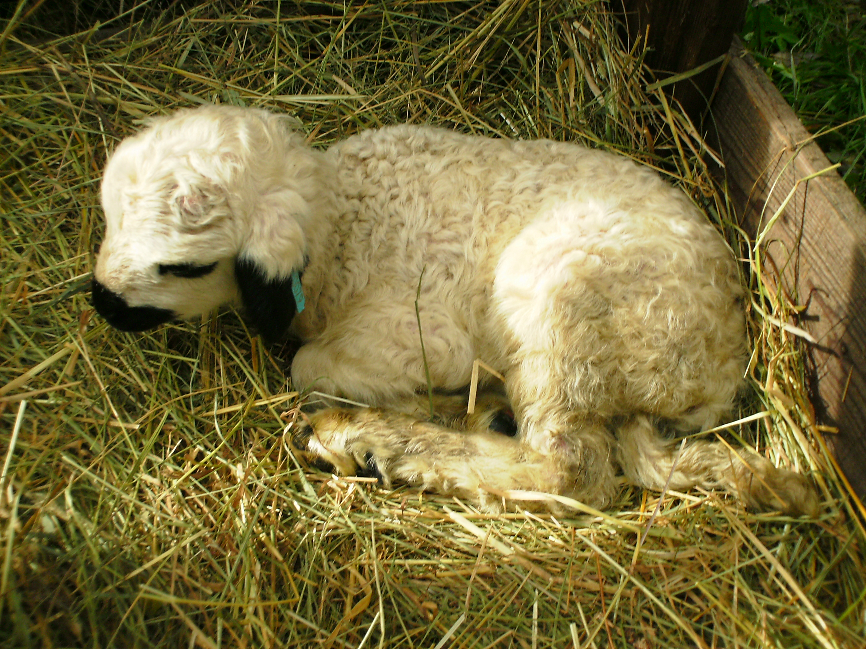 A 3 weeks old lamb, "Thônes et Marthod" french race